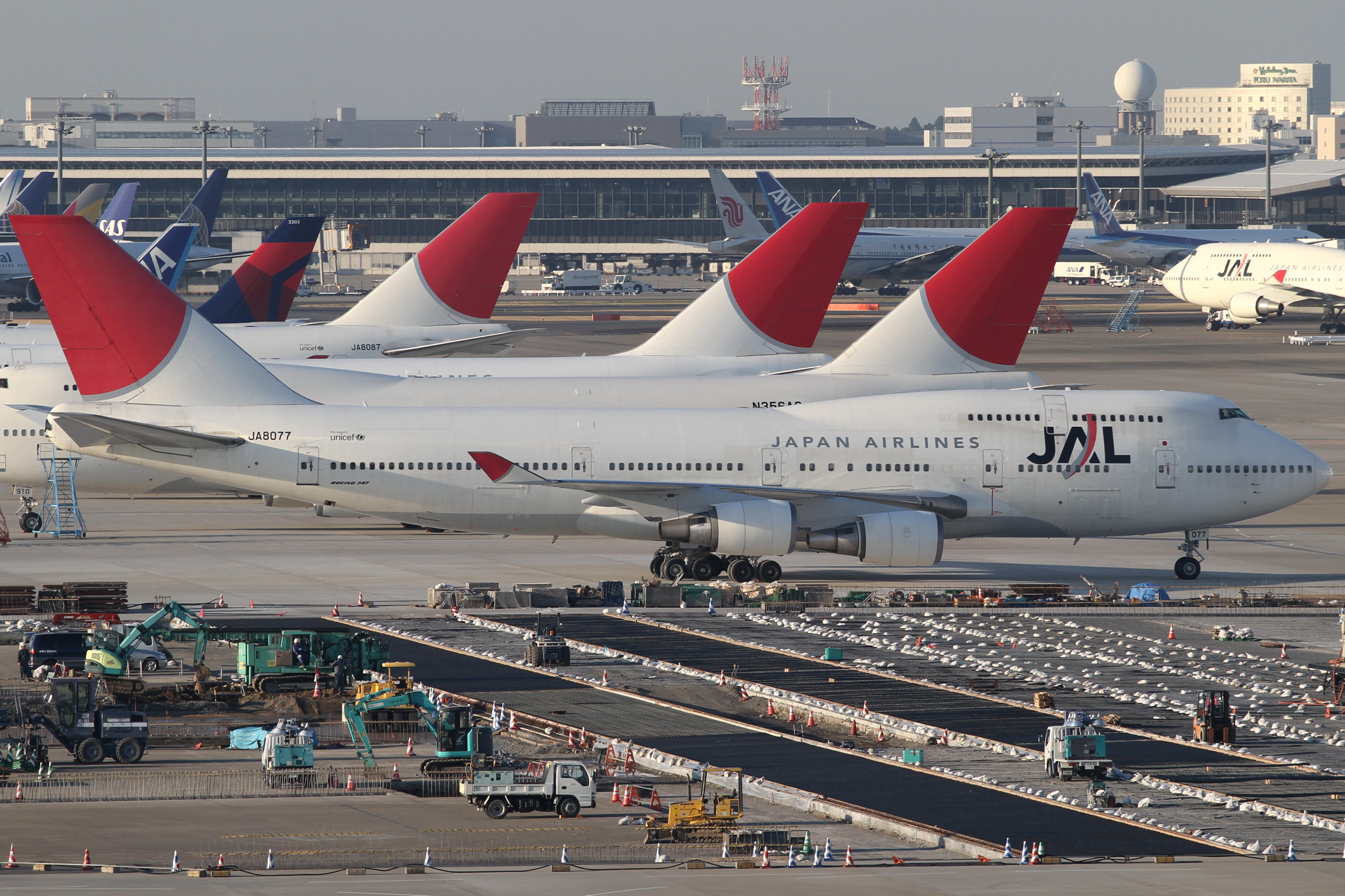 Narita International Airport, Boeing 747-446, c/n:24784, Japan Airlines